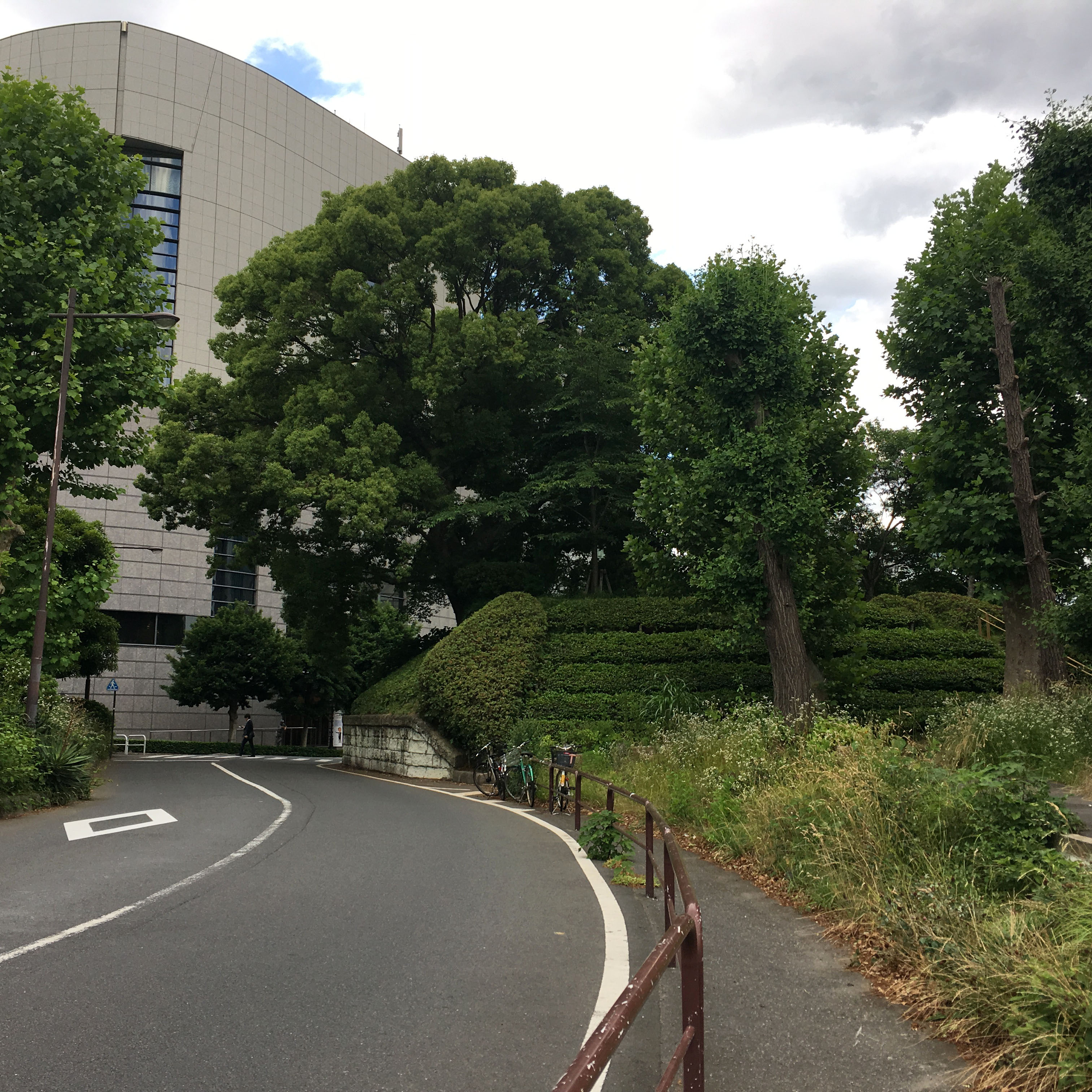 Site of Edo Castle Outer Moat - Gate of Kuichigai (National Historic Sites in Tokyo, Japan)